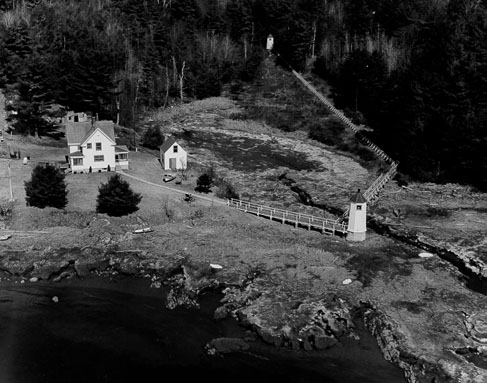 Doubling Point Range Lights Maine